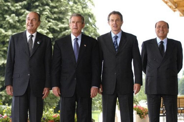 George W. Bush poses with G8 leaders during the G8 Summit in Evian, France, on June 2, 2003. From left, President Jacques Chirac of France, President Bush, Prime Minister Tony Blair of Great Britain and Prime Minister Silvio Berlusconi of Italy.